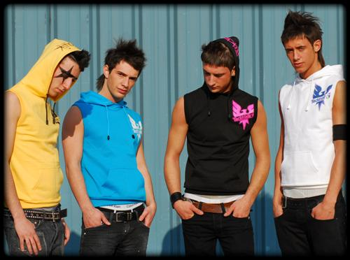 tecktontik dancer (Mondotek)